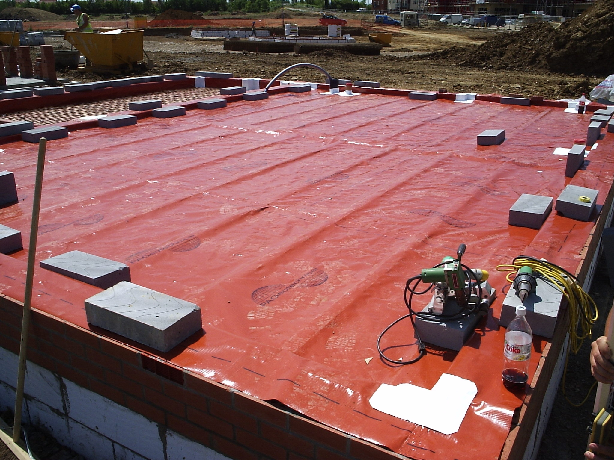 Gas Membrane 2